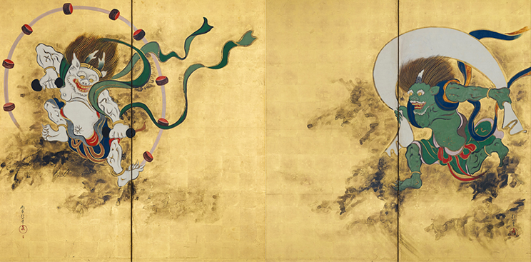 Wind God and Thunder God by Sakai Hōitsu (Idemitsu Museum of Arts, Tokyo)